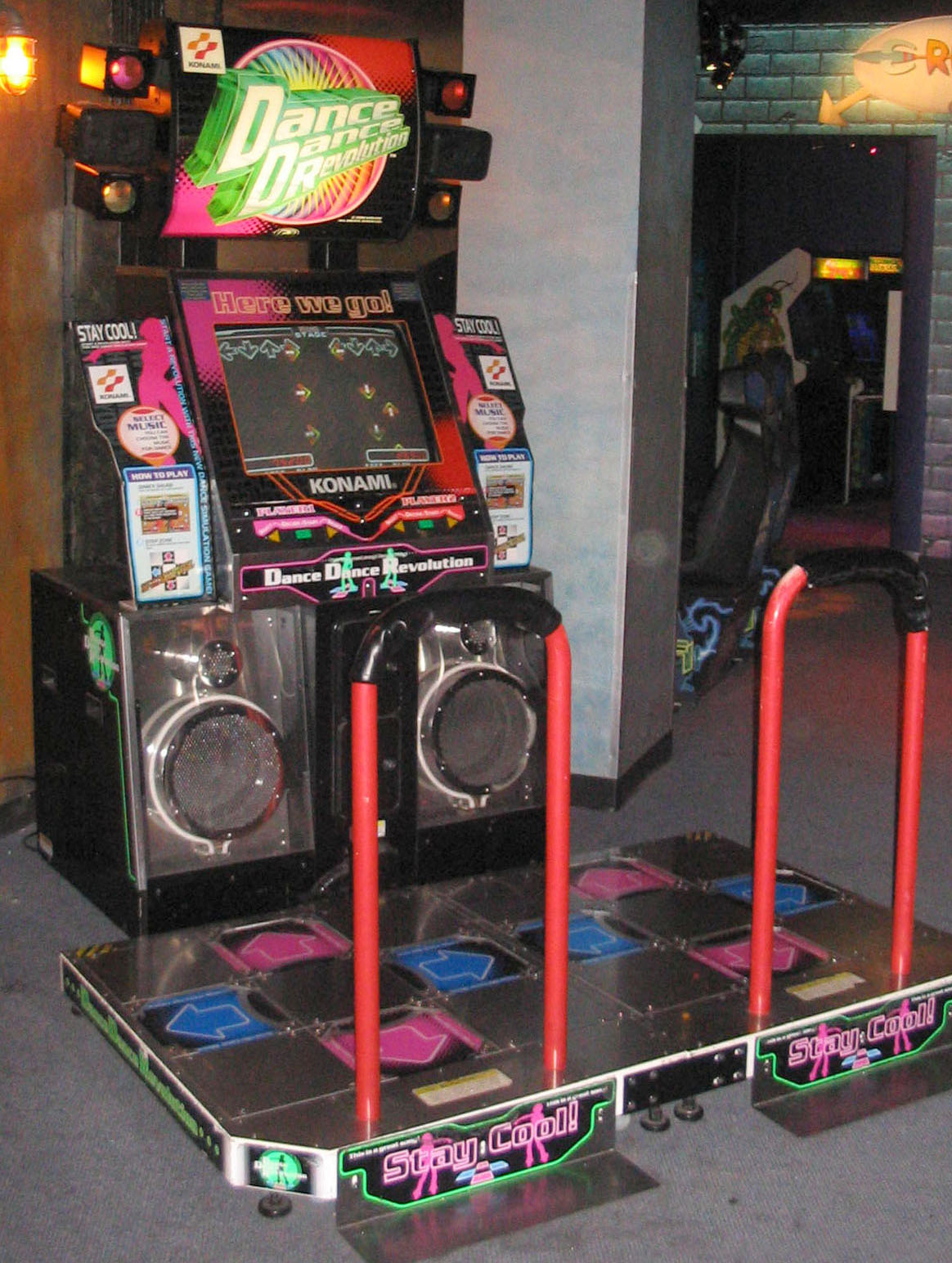 Original picture taken by User:SPUI at DisneyQuest in Orlando, FL. Edited in Adobe Photoshop. Rotated counter-clockwise to align wall in background better, then cropped to focus picture on machine. Also adjusted for brightness and color levels.